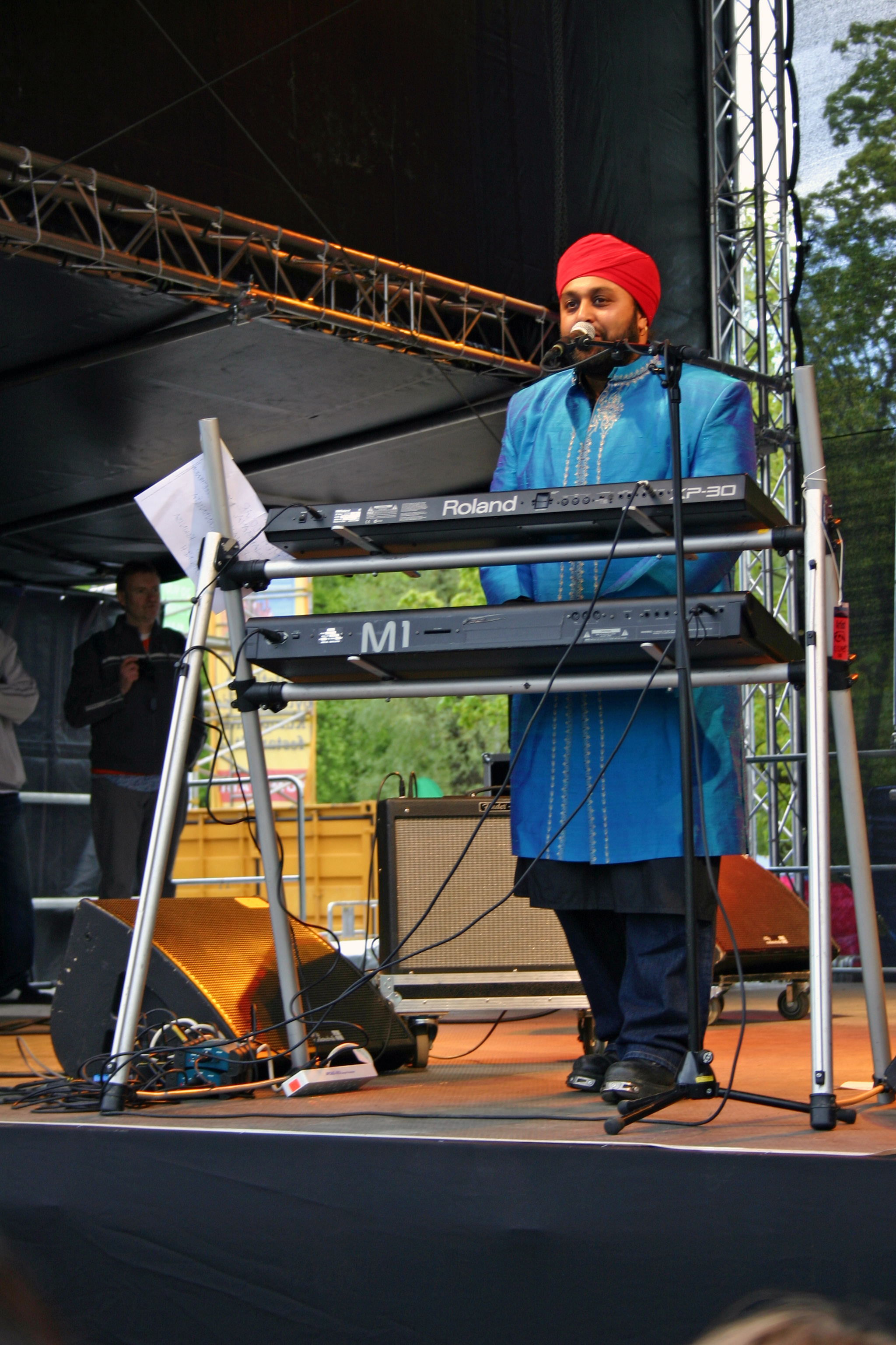 Ron Singh, plays keyboard in Kissmet-band. Photo from Maailma Kylässä (World Village) -festival in Helsinki, Finland. 27.5.2006